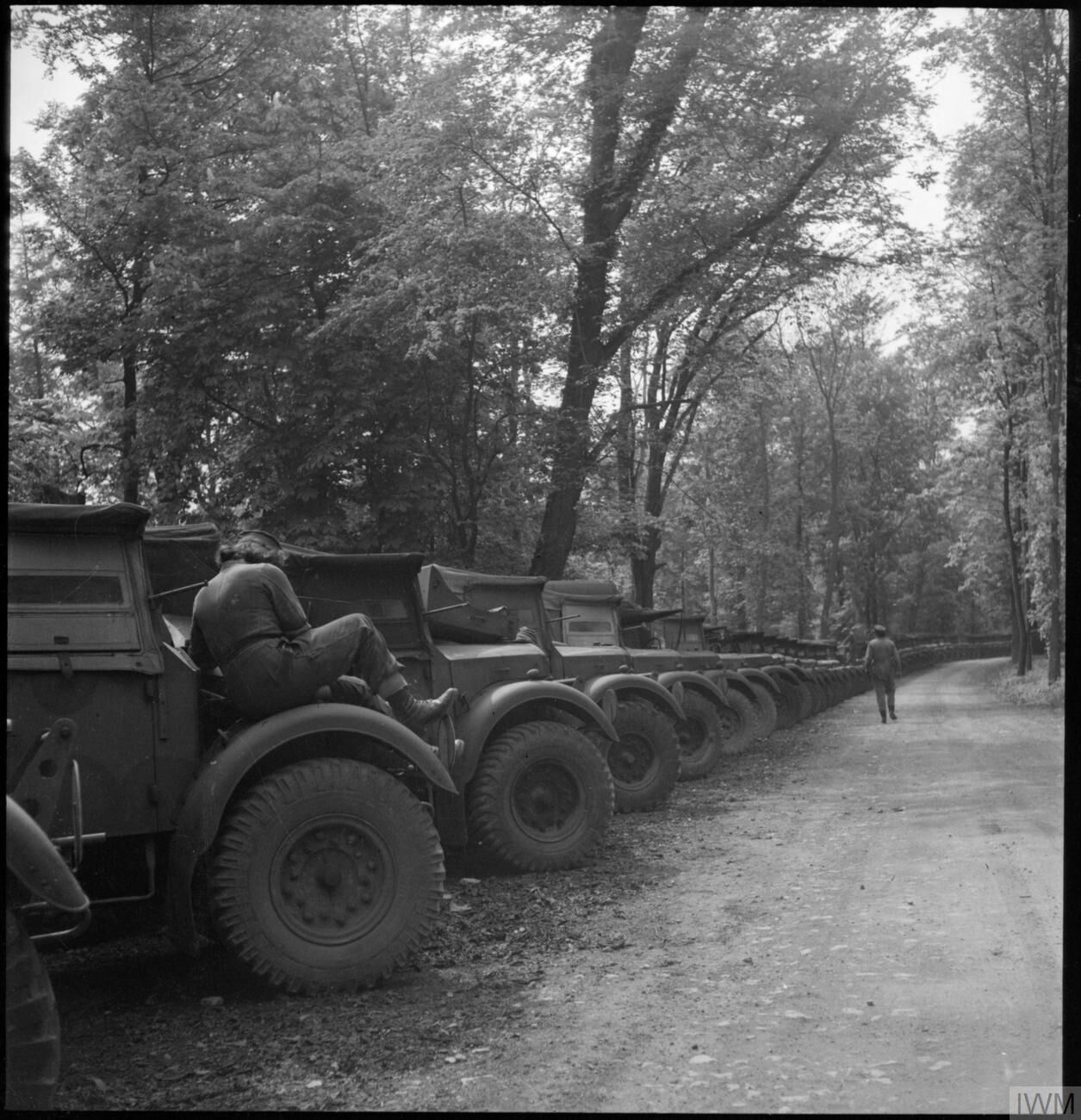 Invasion Build-up- Preparations For the D-day Landings, UK, 1944 A line of army trucks awaits collection along a tree-lined lane or path, somewhere in Britain. They will soon be collected by various units and transported to the Second Front. In the foreground, an ATS mechanic can be seen sitting on the wheel arch of one of the vehicles, her back to the camera. Another member of the ATS can be seen walking down the lane into the distance.